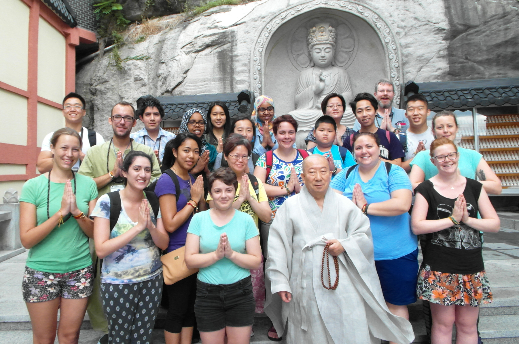 Myogak Temple4